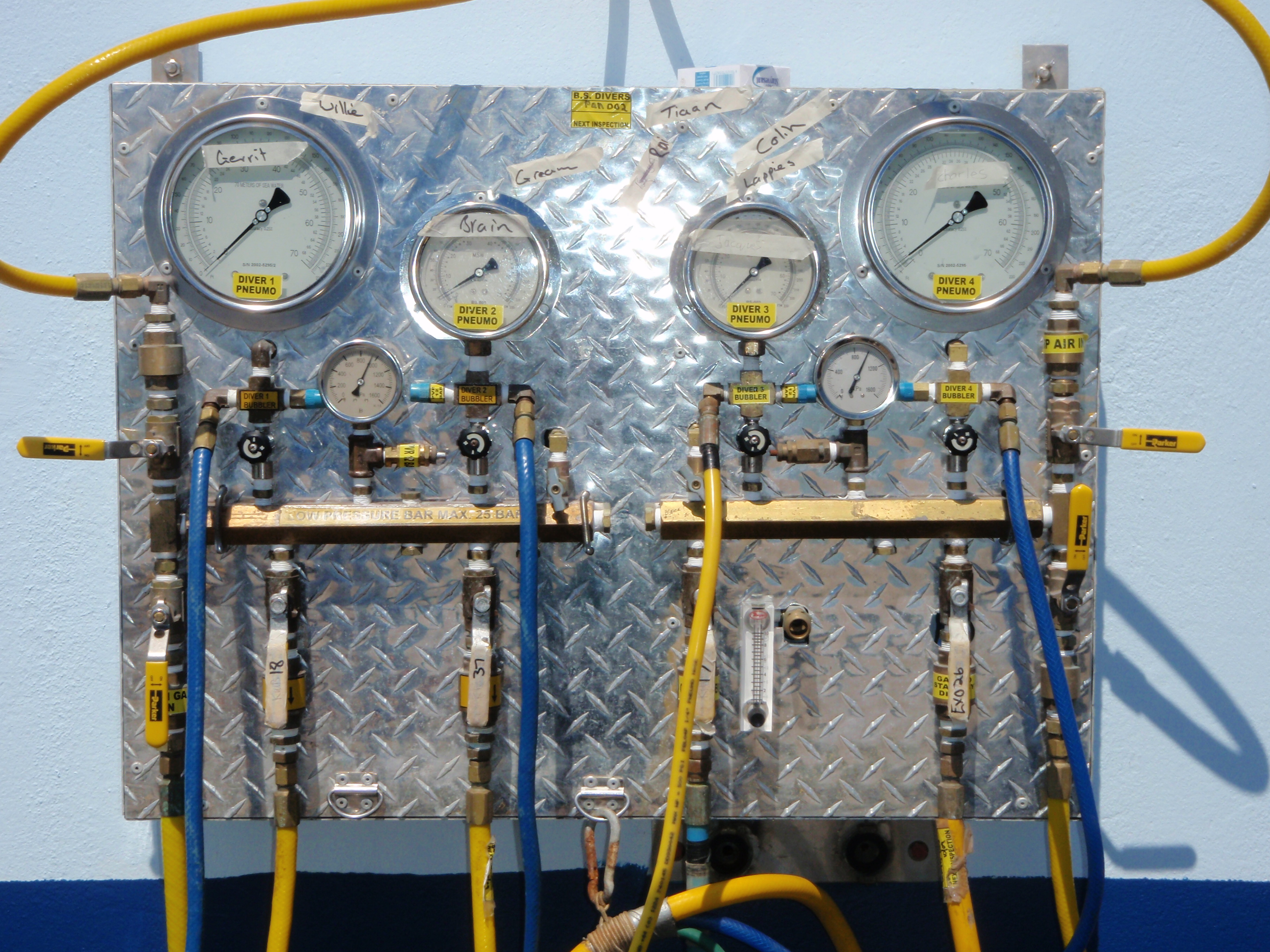 A surface supply panel for 4 divers, connected and in use for diver training